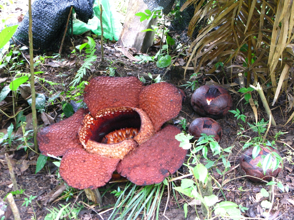 A Rafflesia Arnoldii and its buds, taken at foothill of Mt. Kinabalu, Sabah, Malaysia